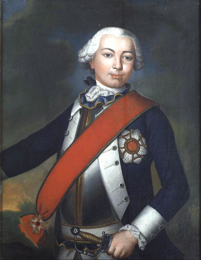 Portrait of John Adolph of Nassau-Usingen (1740-1793)